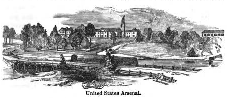 Watertown Arsenal, c1847.